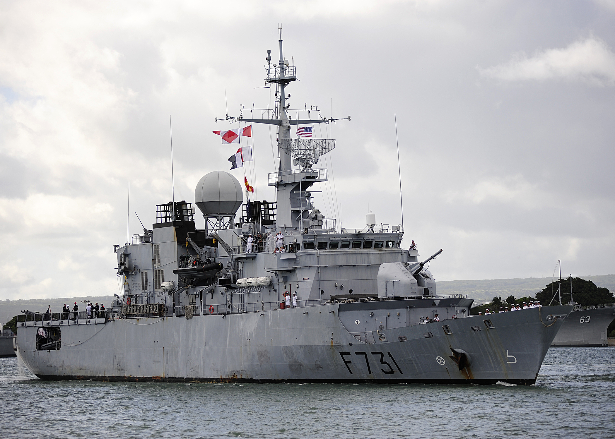 French military surveillance ship FS Prairial (F 731) arrives at Joint Base Pearl Harbor-Hickam for participation in the Rim of the Pacific (RIMPAC) Exercise 2014. Twenty-two nations, more than 40 ships and submarines, more than 200 aircraft and 25,000 personnel are participating in RIMPAC exercise from June 26 to Aug. 1 in and around the Hawaiian Islands. The world's largest international maritime exercise, RIMPAC provides a unique training opportunity that helps participants foster and sustain the cooperative relationships that are critical to ensuring the safety of sea lanes and security on the world's oceans. RIMPAC 2014 is the 24th exercise in the series that began in 1971. (U.S. Navy photo by Mass Communication Specialist 2nd Class Tiarra Fulgham/Released)